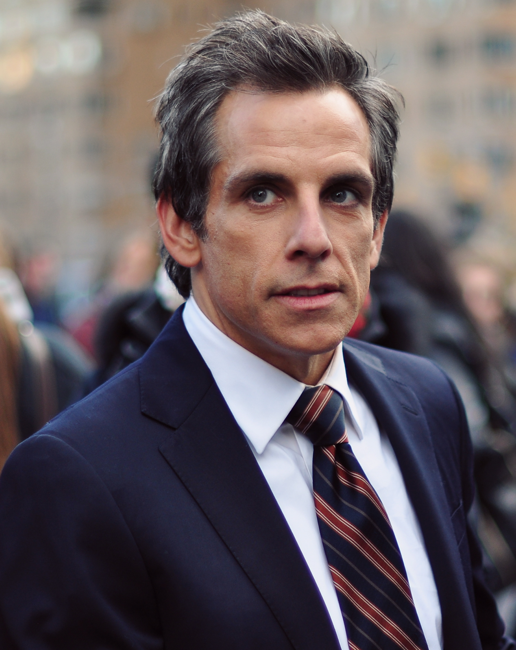 Ben Stiller photographed in NYC by Jiyang Chen, November 2010